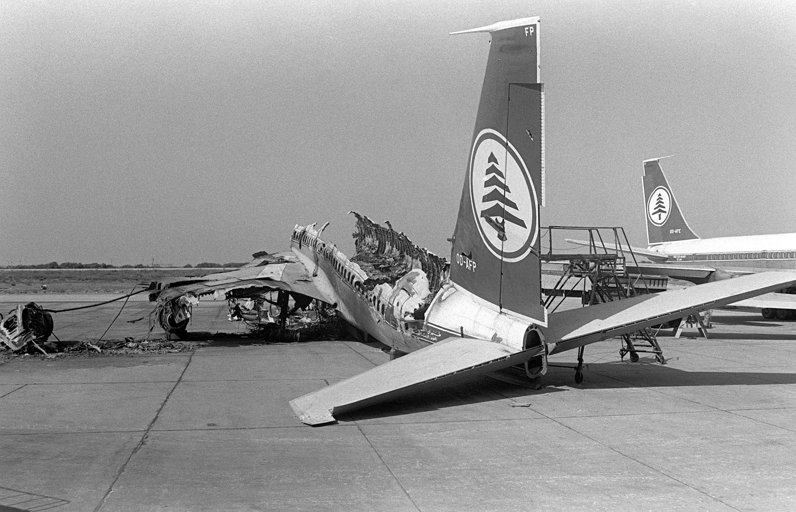 Middle East Airlines Boeing 720 (OD-AFP) which was destroyed during Operation Peace for Galilee on 12 June 1982.[1]